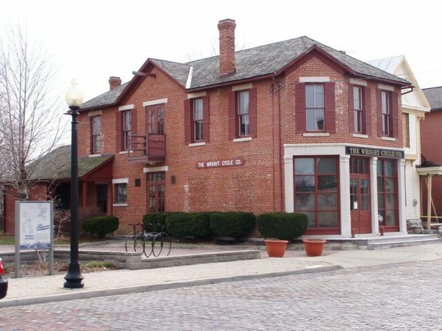 Wright Cycle Shop at Dayton Aviation National Hist Park